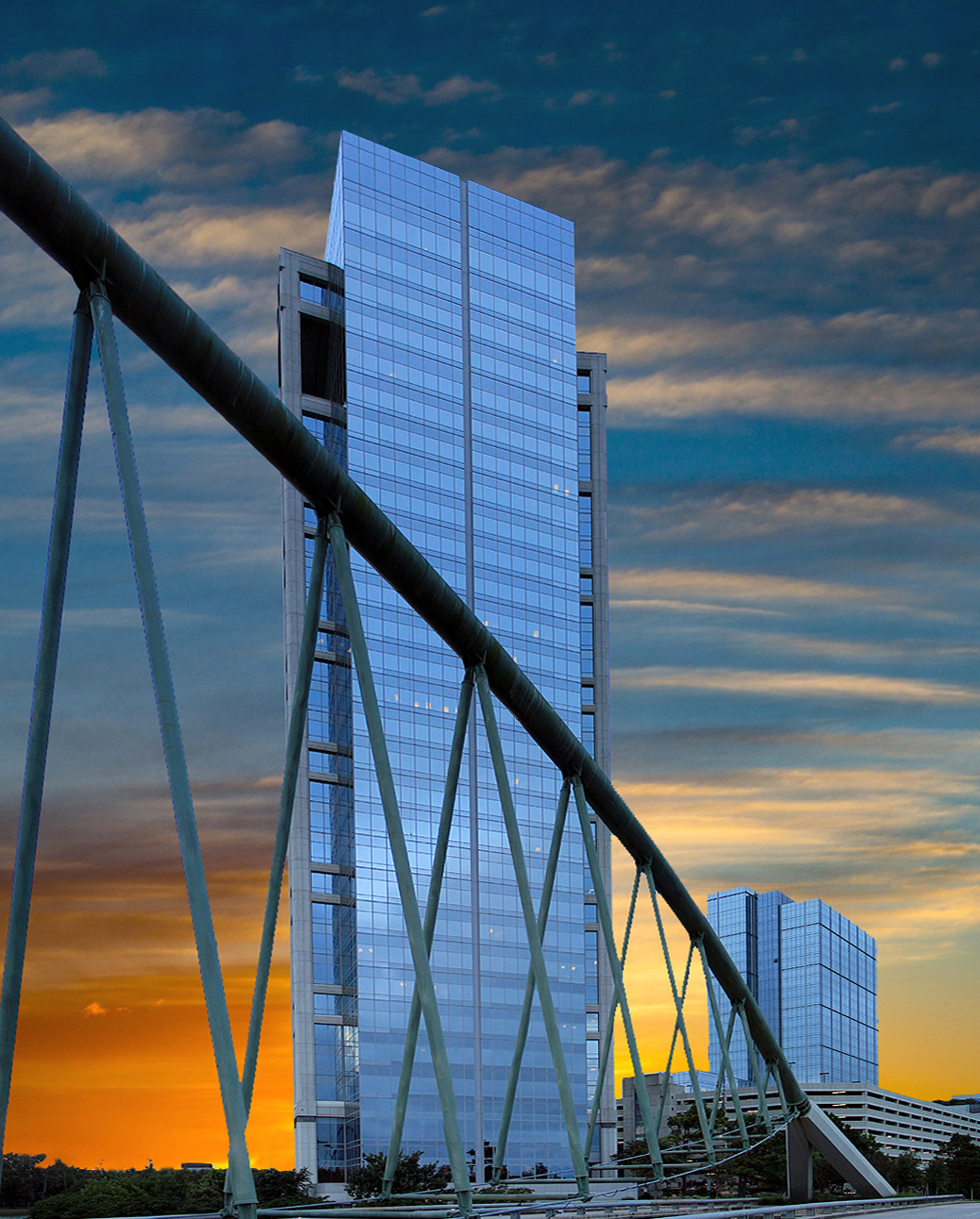 Anadarko from Lake Robbins Drive